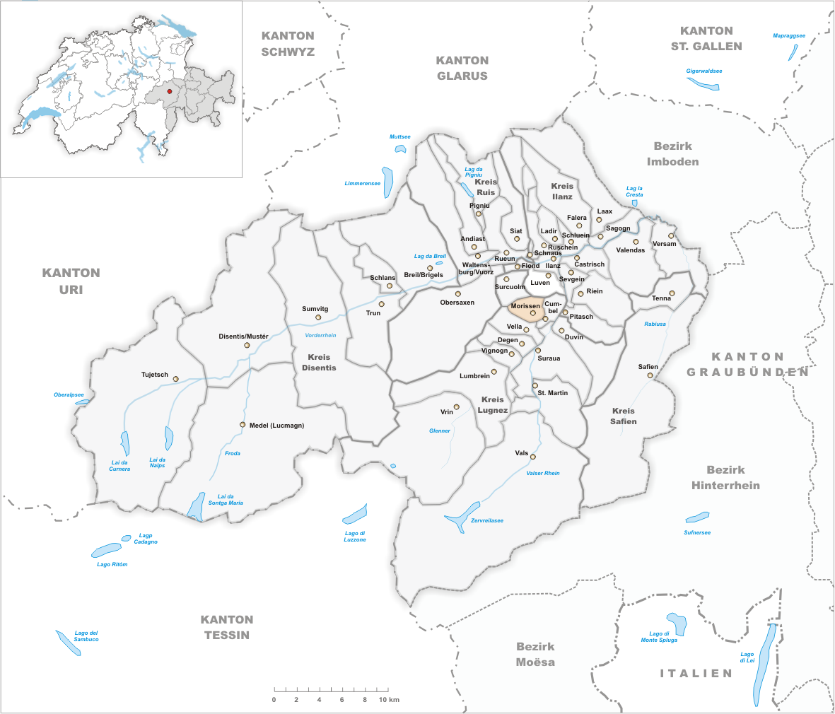 Municipality Morissen